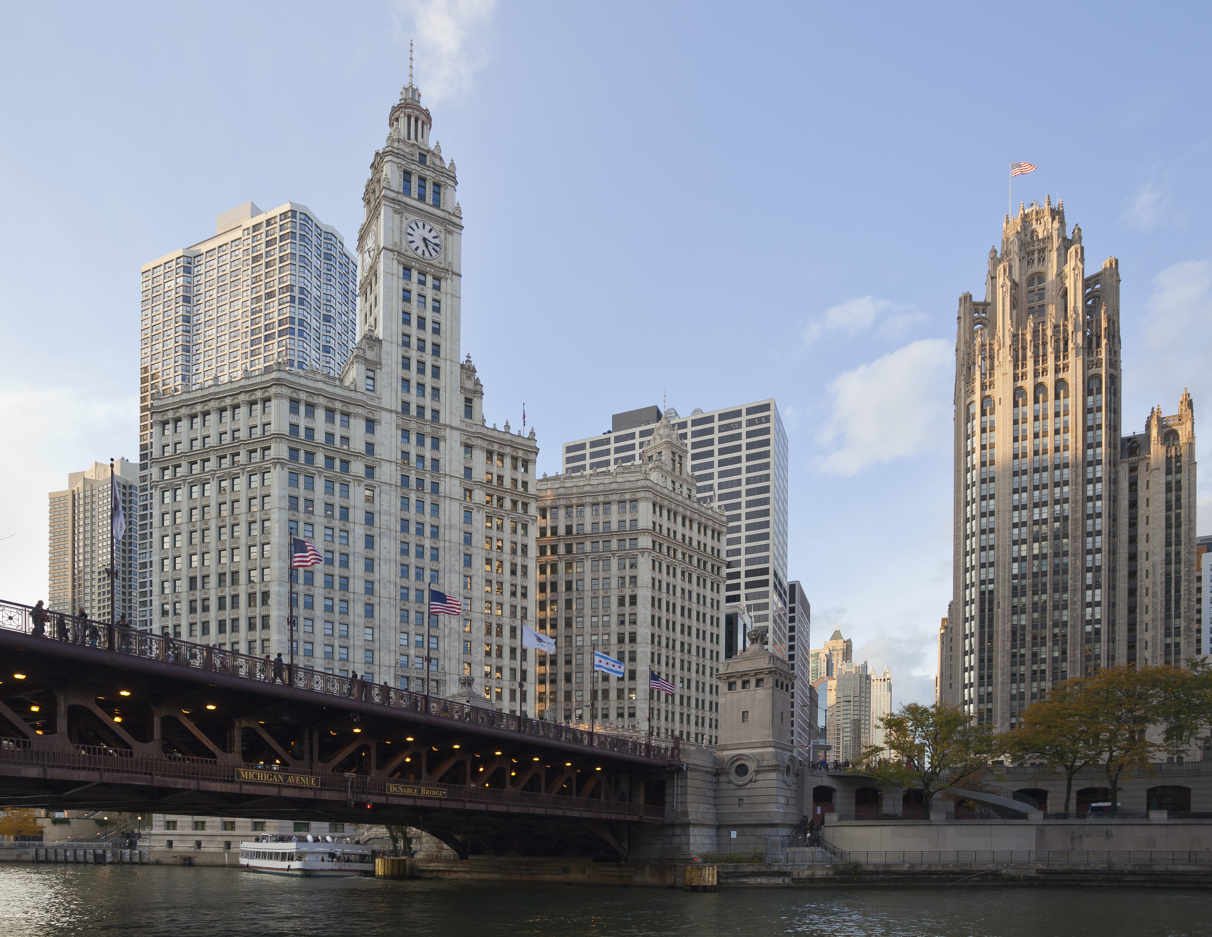 Chicago River, Chicago, Illinois, USA